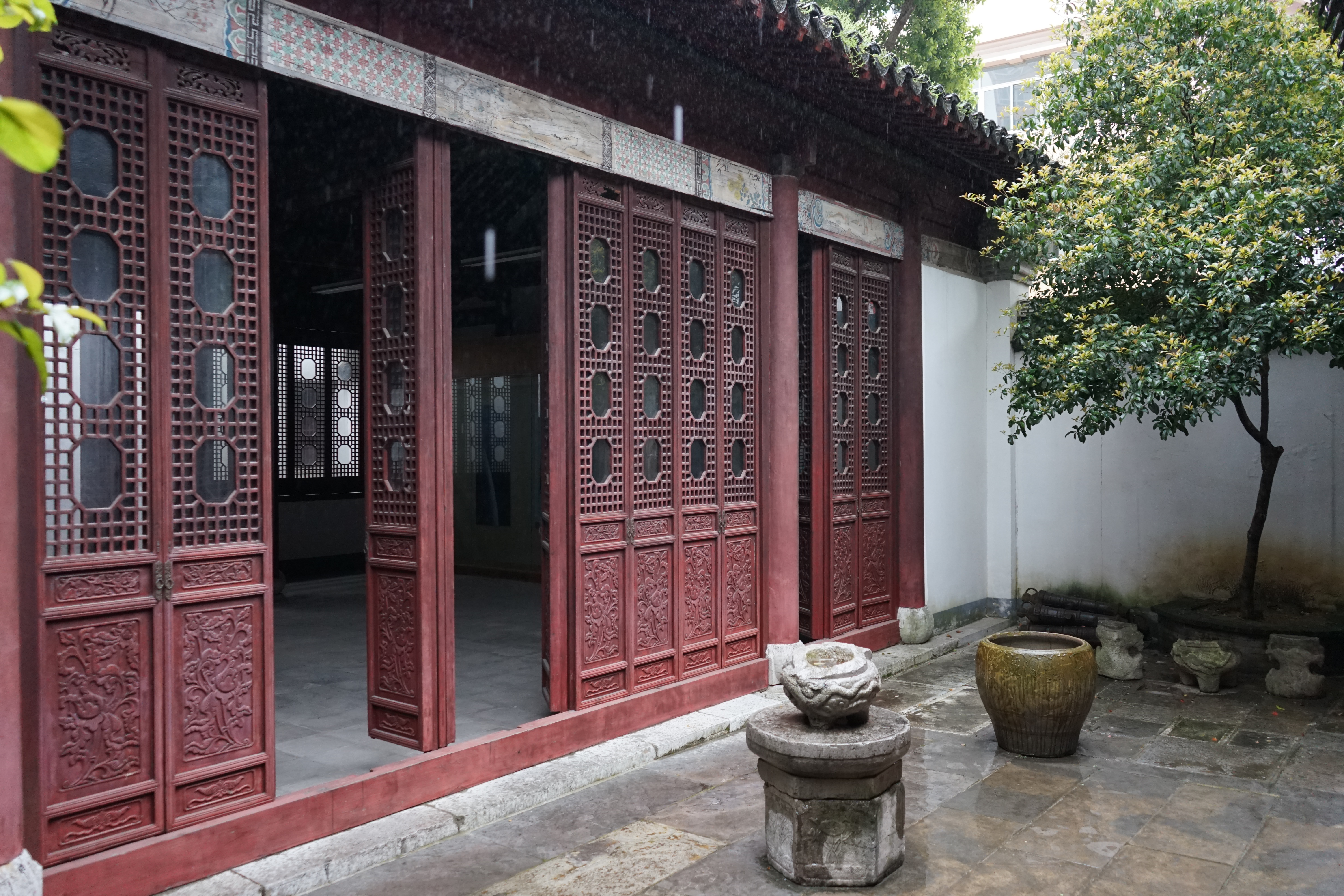 Residence of the King Daiwang of the Taiping Heavenly Kingdom courtyard